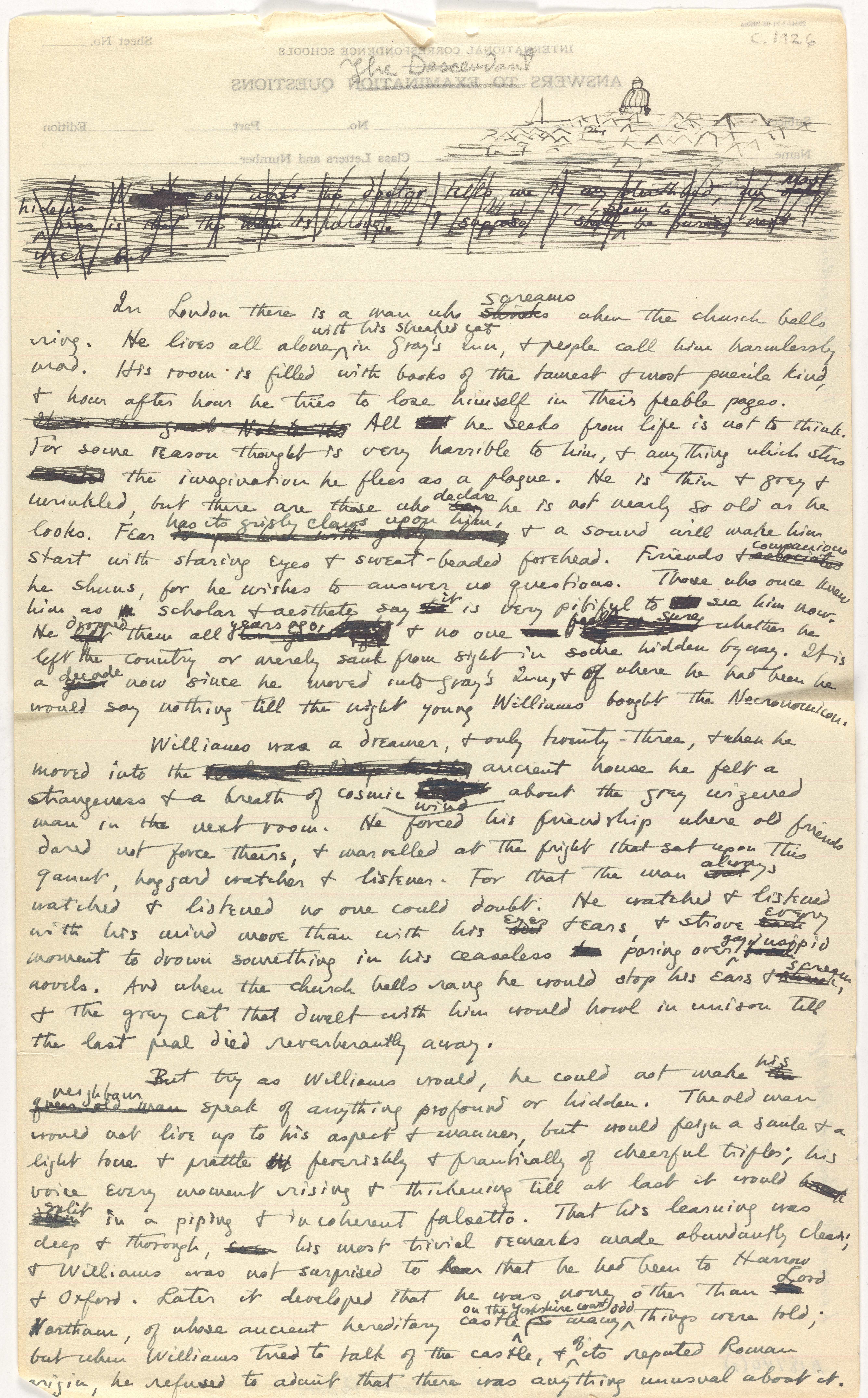 First page of the manuscript The Descendant.